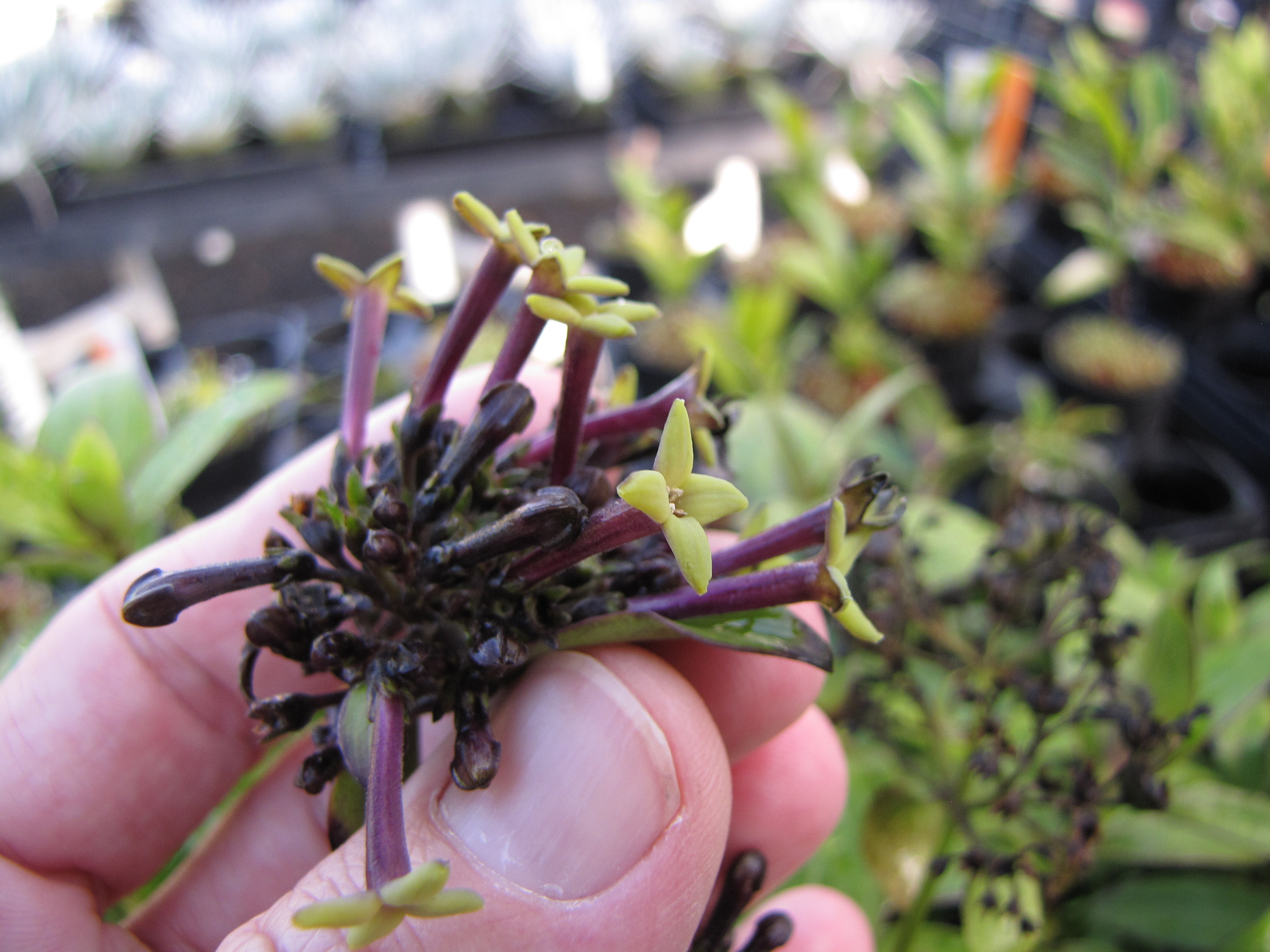 Kadua centranthoides (Manono) Flowers at Greenhouse Haleakala National Park, Maui, Hawaii.